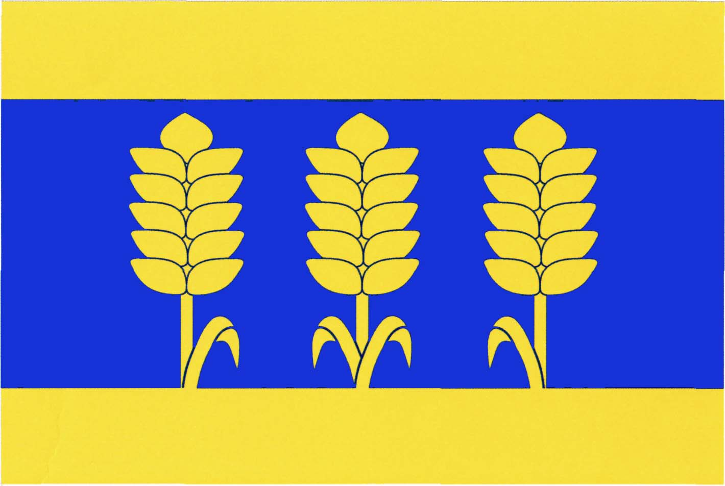 Municipal flag of Nová Ves , District Prague East, Czech Republic